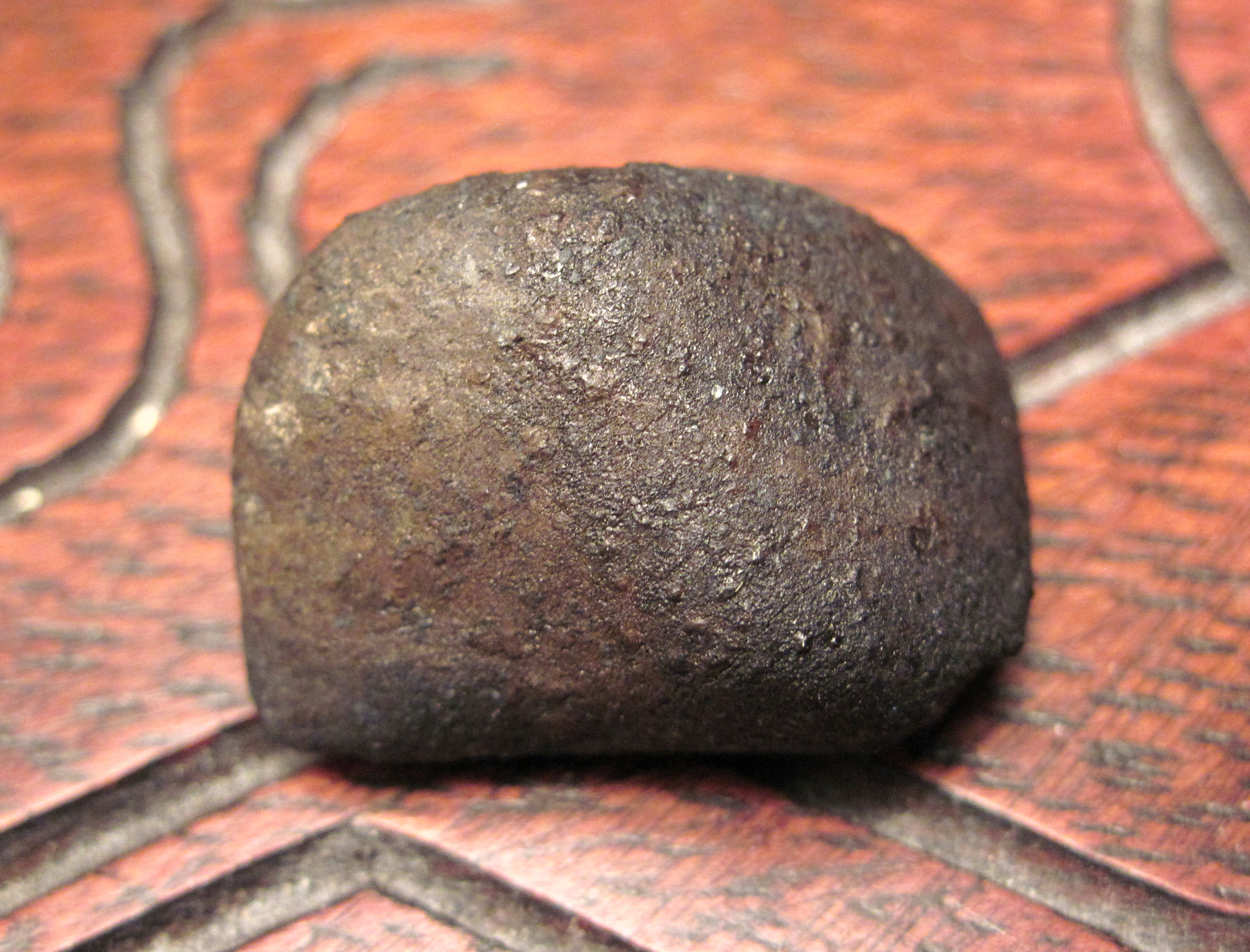 This fresh fusion crusted specimen weighs 12.3 grams and was recovered by B. Newman after the spectacular fall on November 20, 2008 in Lone Rock, SK, Canada. Buzzard Coulee is an H4 Chondrite. Ex M. Bandli Collection.